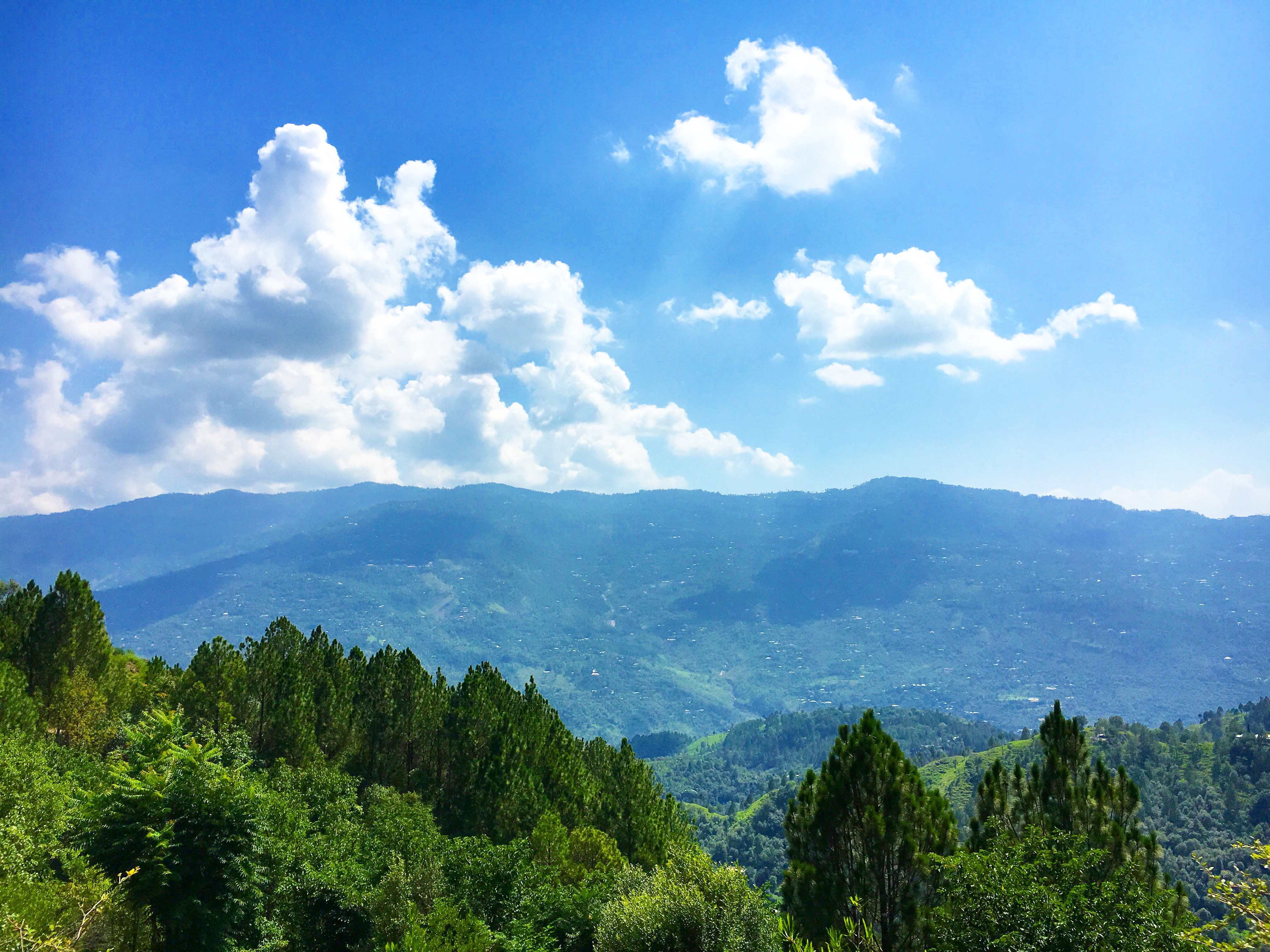 The real beauty lies in the mountains of Azad Kahamir Pakistan